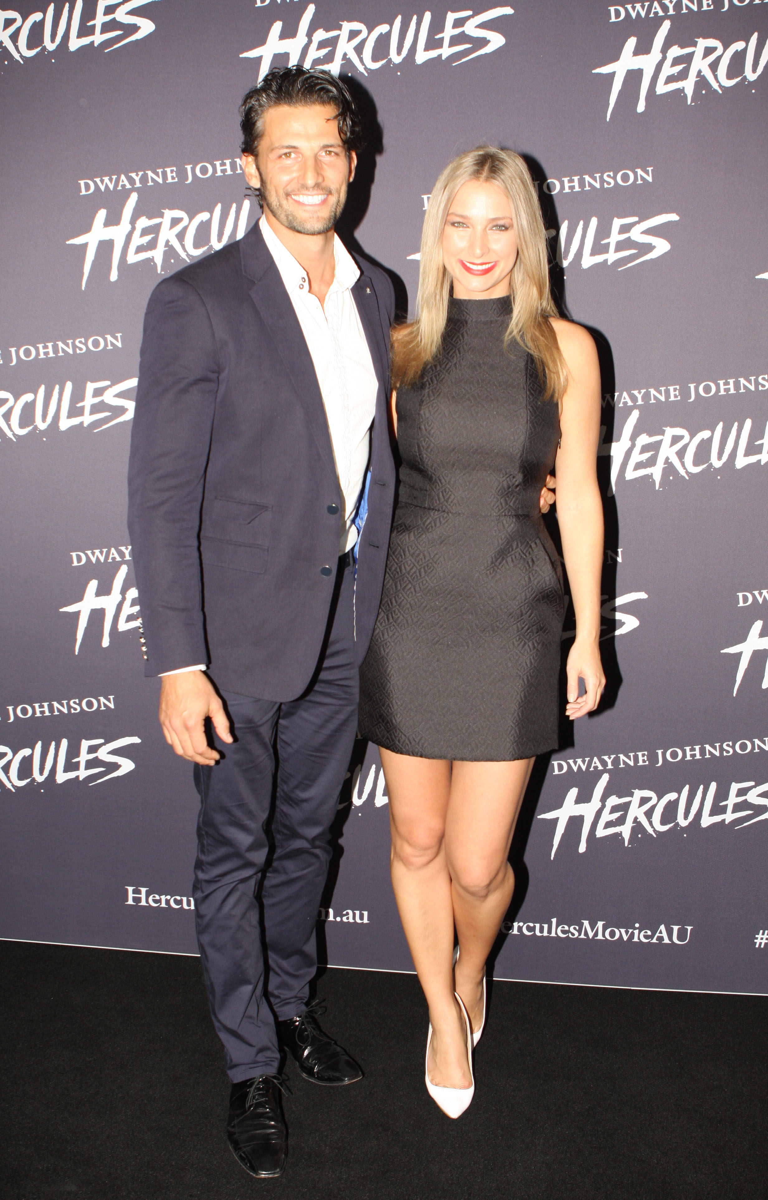 Hercules Premiere, Event Cinemas Sydney Australia